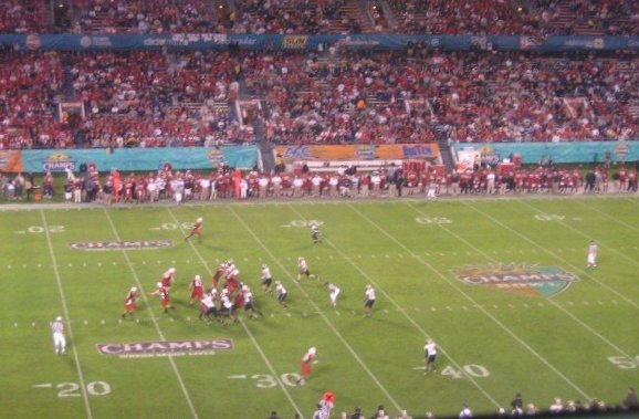 The Maryland Terrapins running an offensive play against the Purdue Boilermakers in the 2006 Champs Sports Bowl, played at the Citrus Bowl in Orlando, Florida.